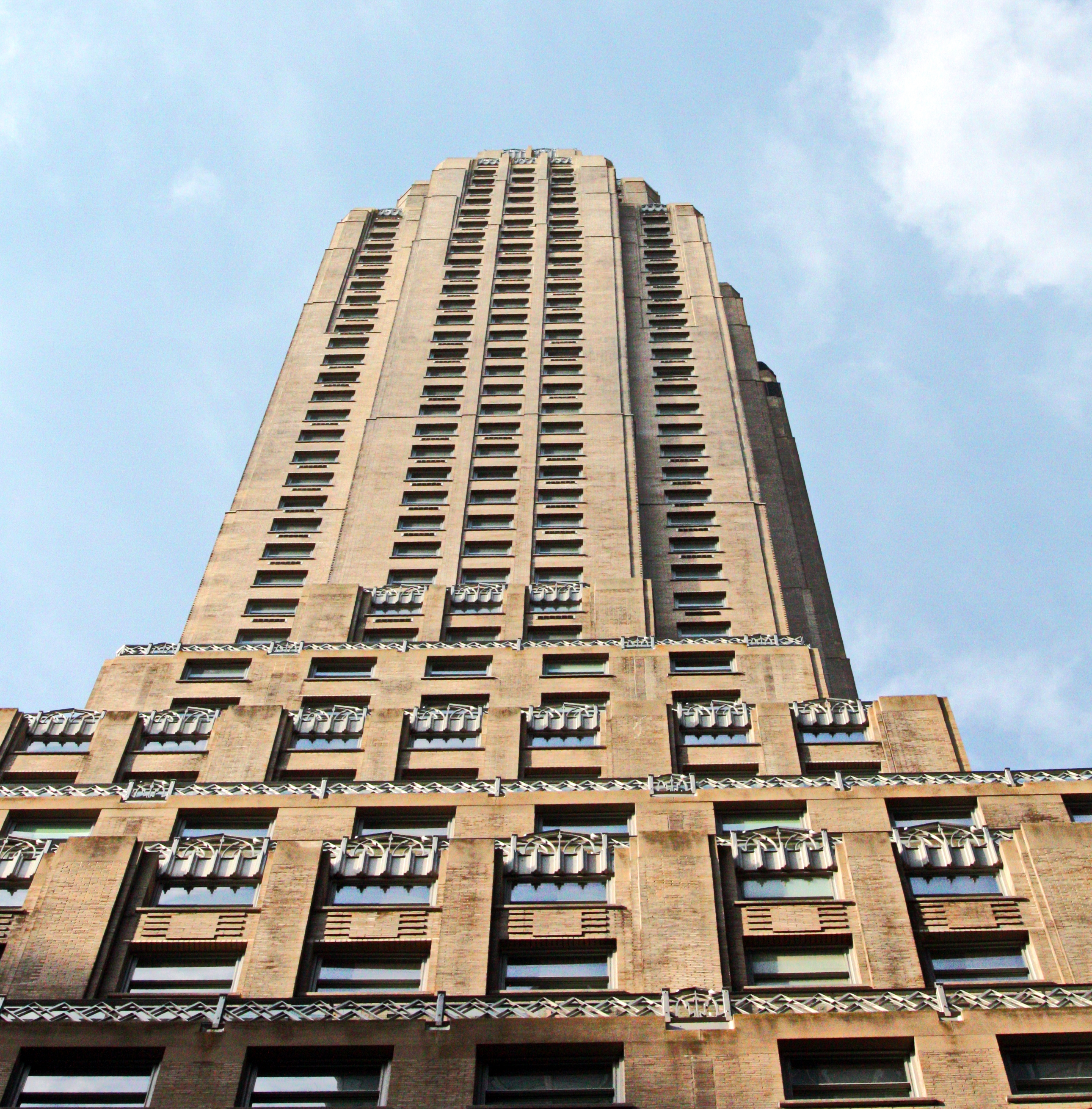 Exterior facade of 70 Pine St (Financial District in NYC)Site: 70 PINE